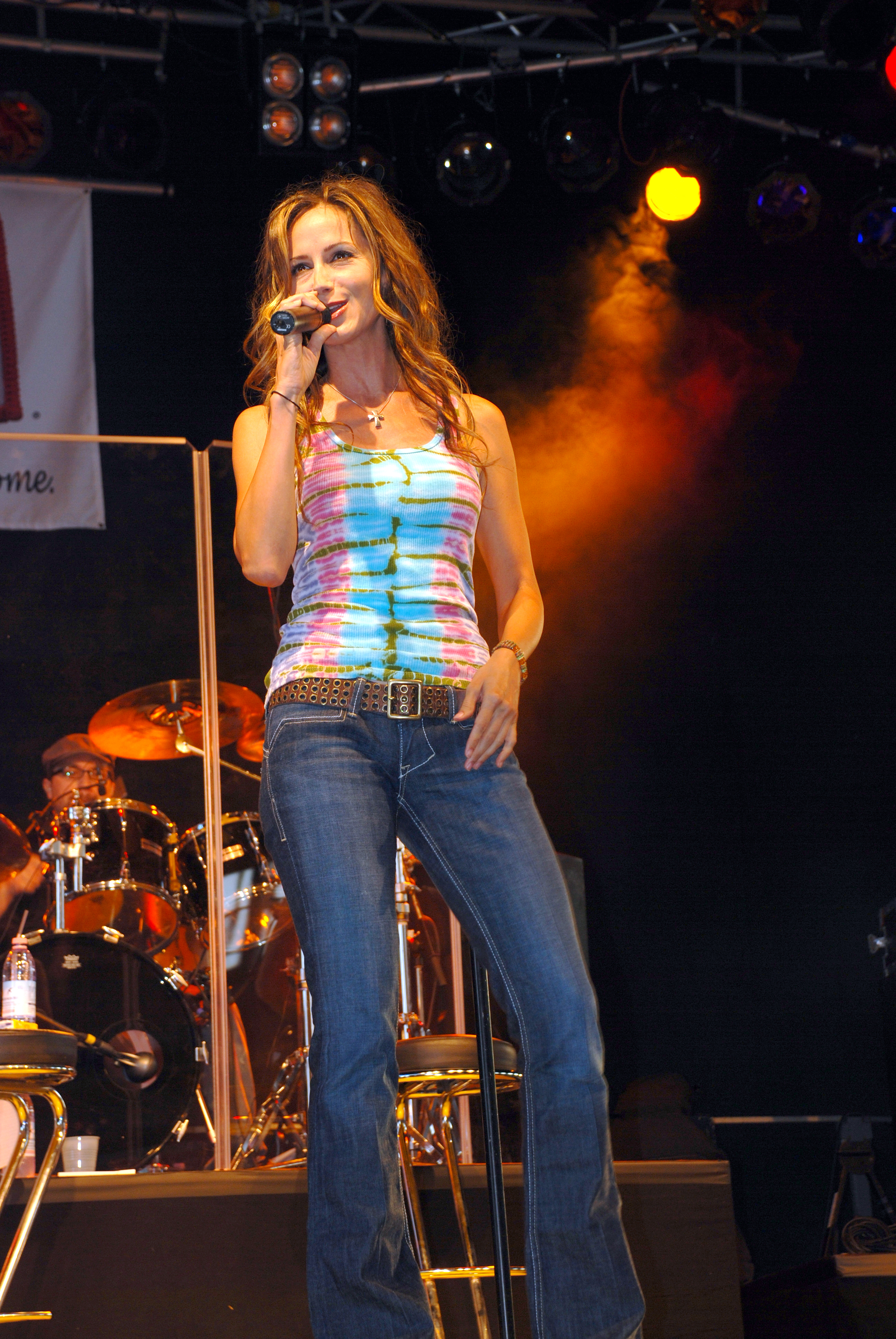 Chely Wright performs at Hangar One July 27.Ms. Wright comes from a military family. During her childhood, she performed at Veteran’s hospitals and miltary funerals. Ms. Wright has been all over the world entertaining troops from Iraq to Japan and now Aviano. Her visit here was part of her USO and Armed Forces Entertainment tour.